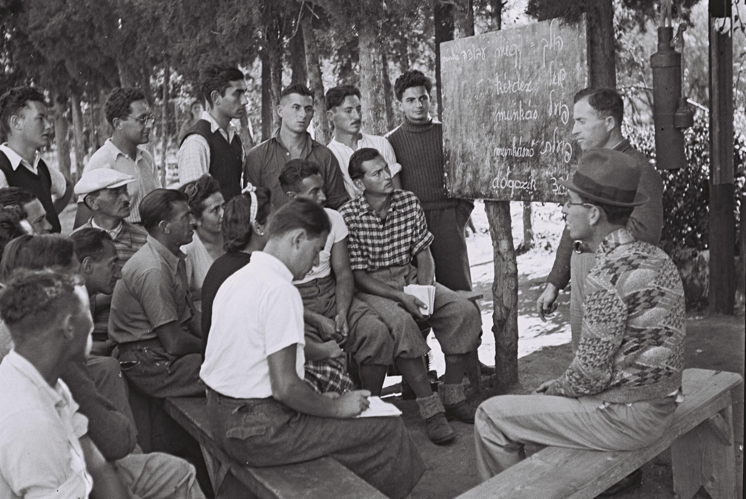 A HEBREW LESSON AT THE "EIN GANIM" IMMIGRANTS CAMP שיעור עברית במחנה העולים "עין גנים".